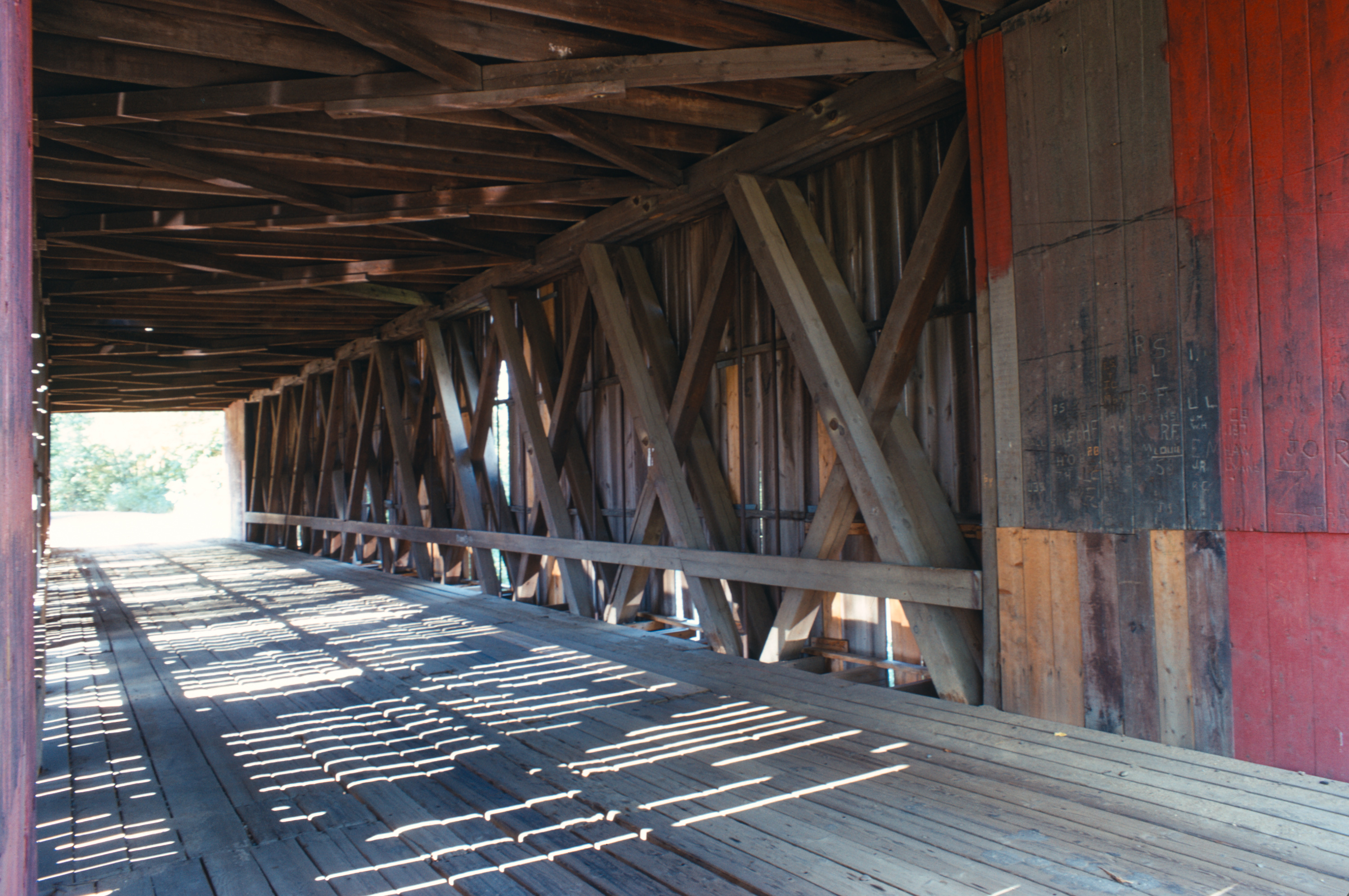 The inside of the lost, to fire, #53 County Farm Bridge, 1966